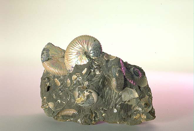 Ammonites in the permanent collection of The Children’s Museum of Indianapolis